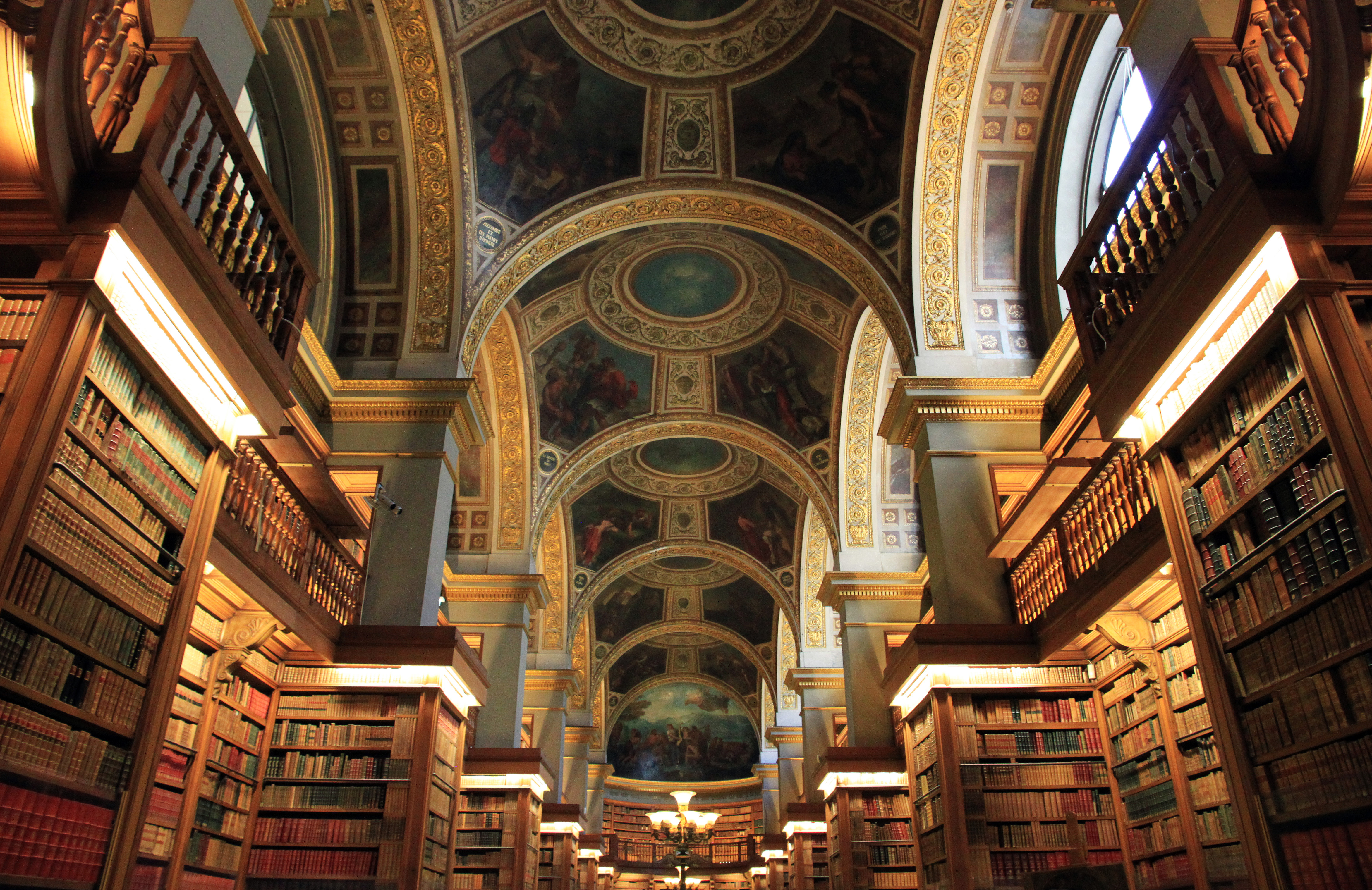 Library of the National Assembly, located in the Palais Bourbon, Paris. Paintings by Eugène Delacroix (1798-1863), between 1838 and 1847.